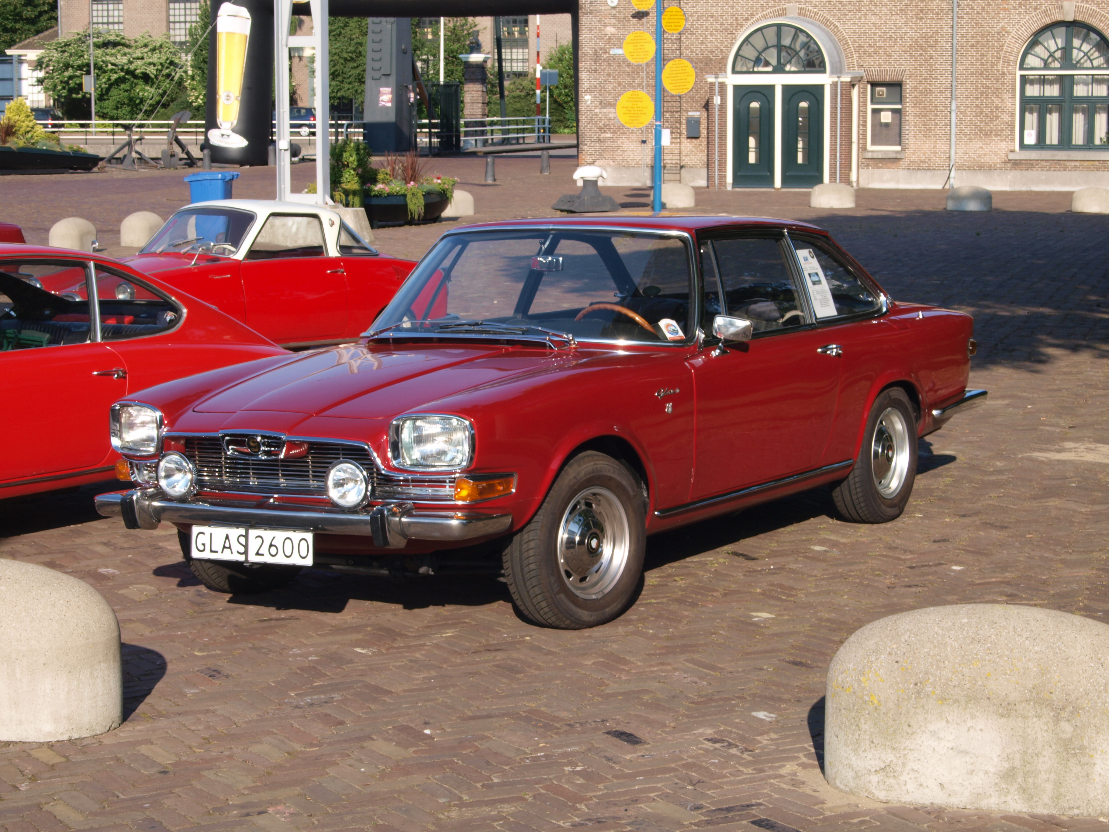 Photographed at Den Helder, The Netherlands. OLYMPUS DIGITAL CAMERA